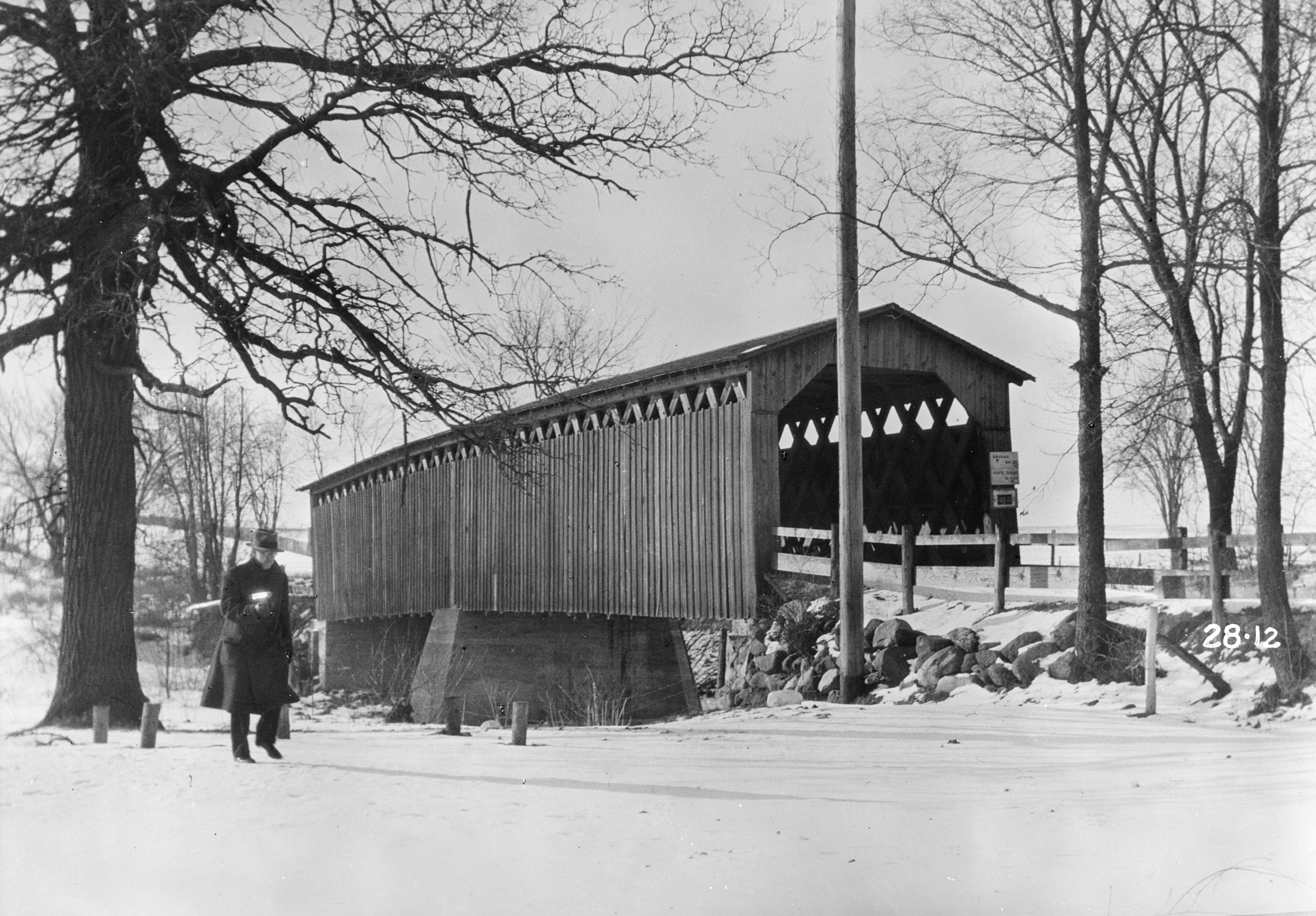 Historic American Buildings Survey photo of exterior of Covered Bridge, Cedarburg, Wisconsin.